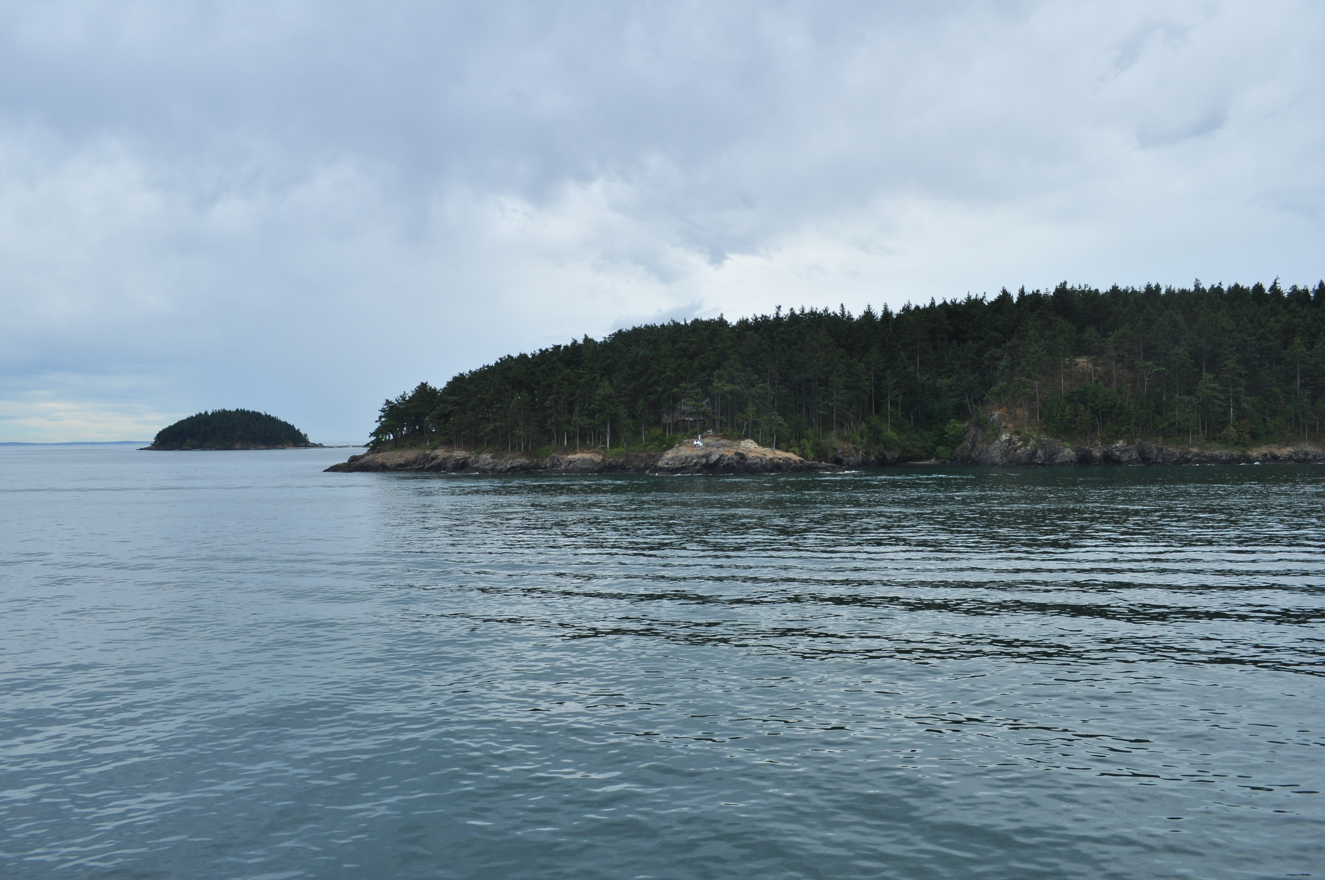 Aboard a ferry in the San Juan Islands (Washington state). Looking roughly south to Decatur Island, James Island in the distance.